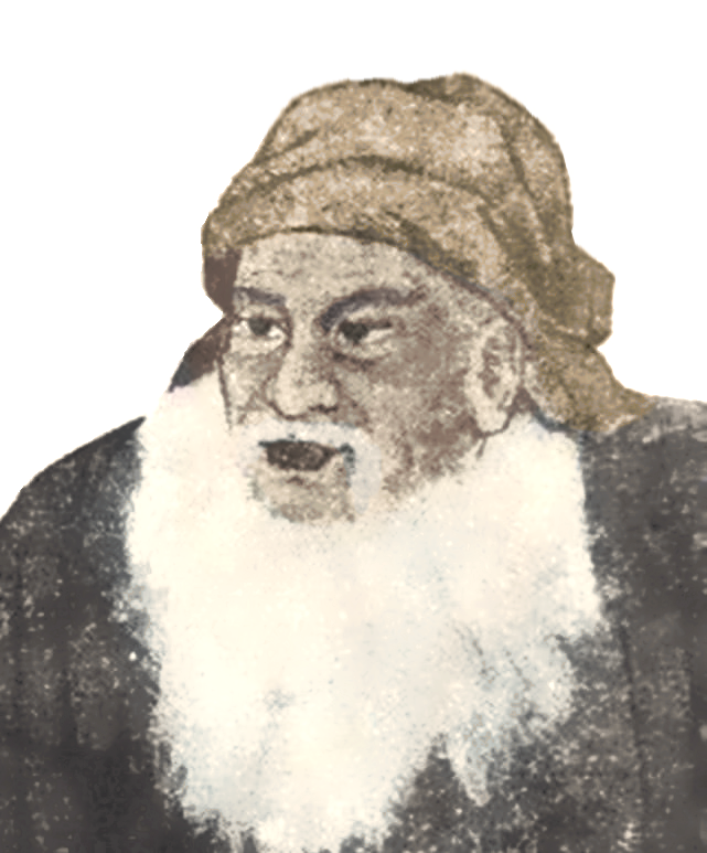 A depiction of Zhang Decheng. Unknown author